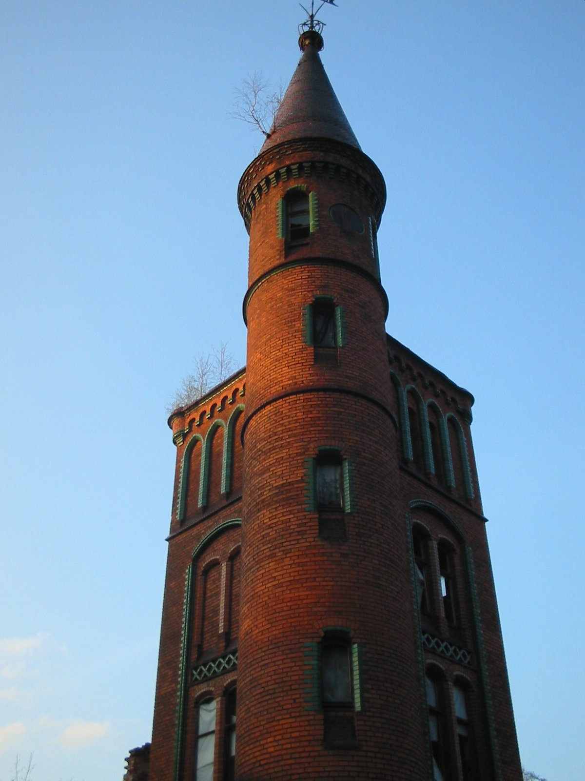 Ruin of "Grunwald" sanatorium (former Sanatorium Dr. Brehmer) at Sokołowsko, Poland